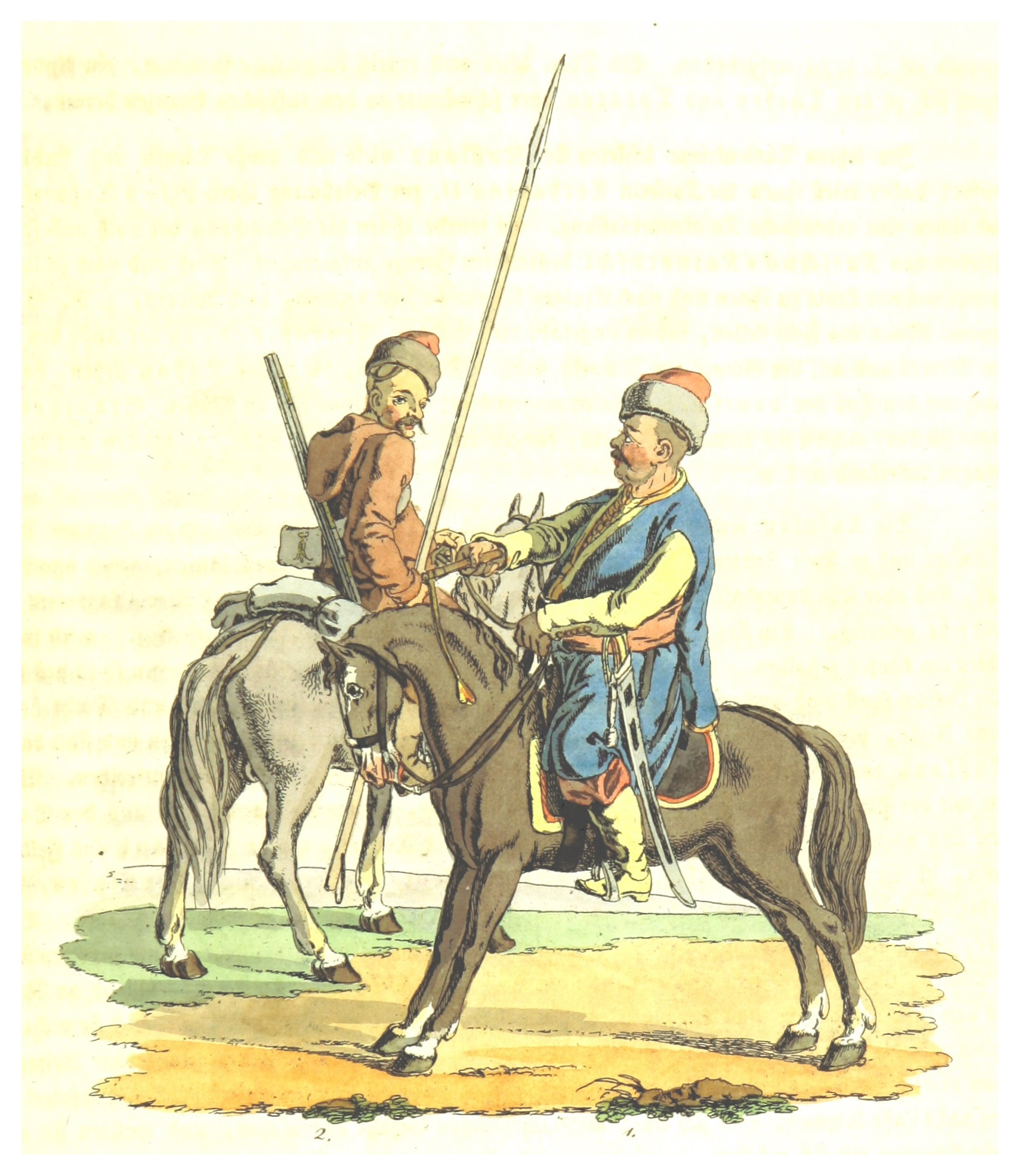 Black Sea Cossacks